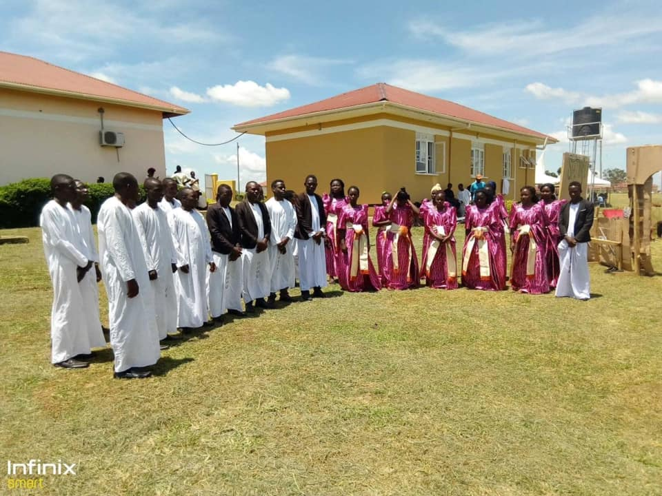 This photo has been taken in the country: Uganda